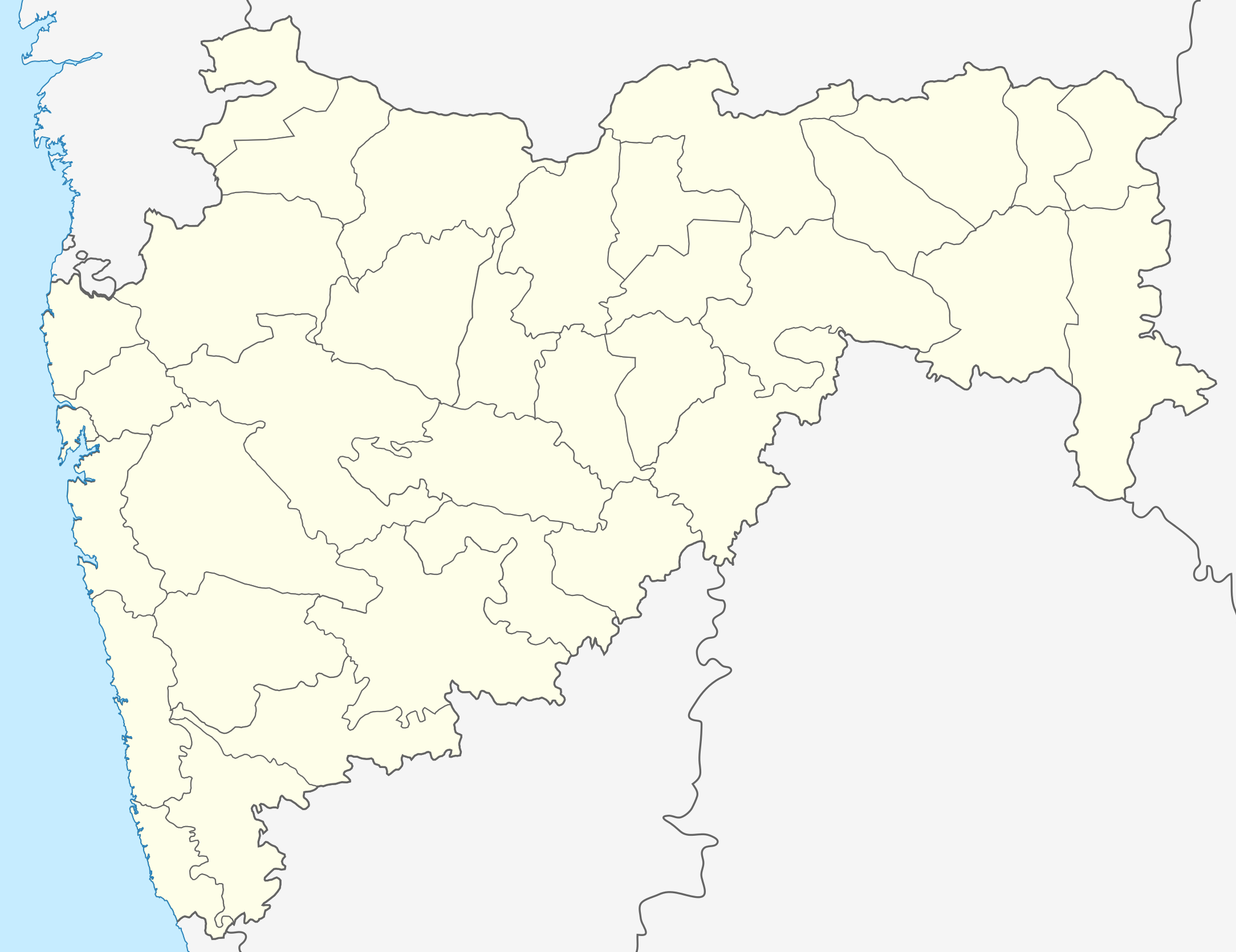 Drawn by User:Nichalp, public domain.